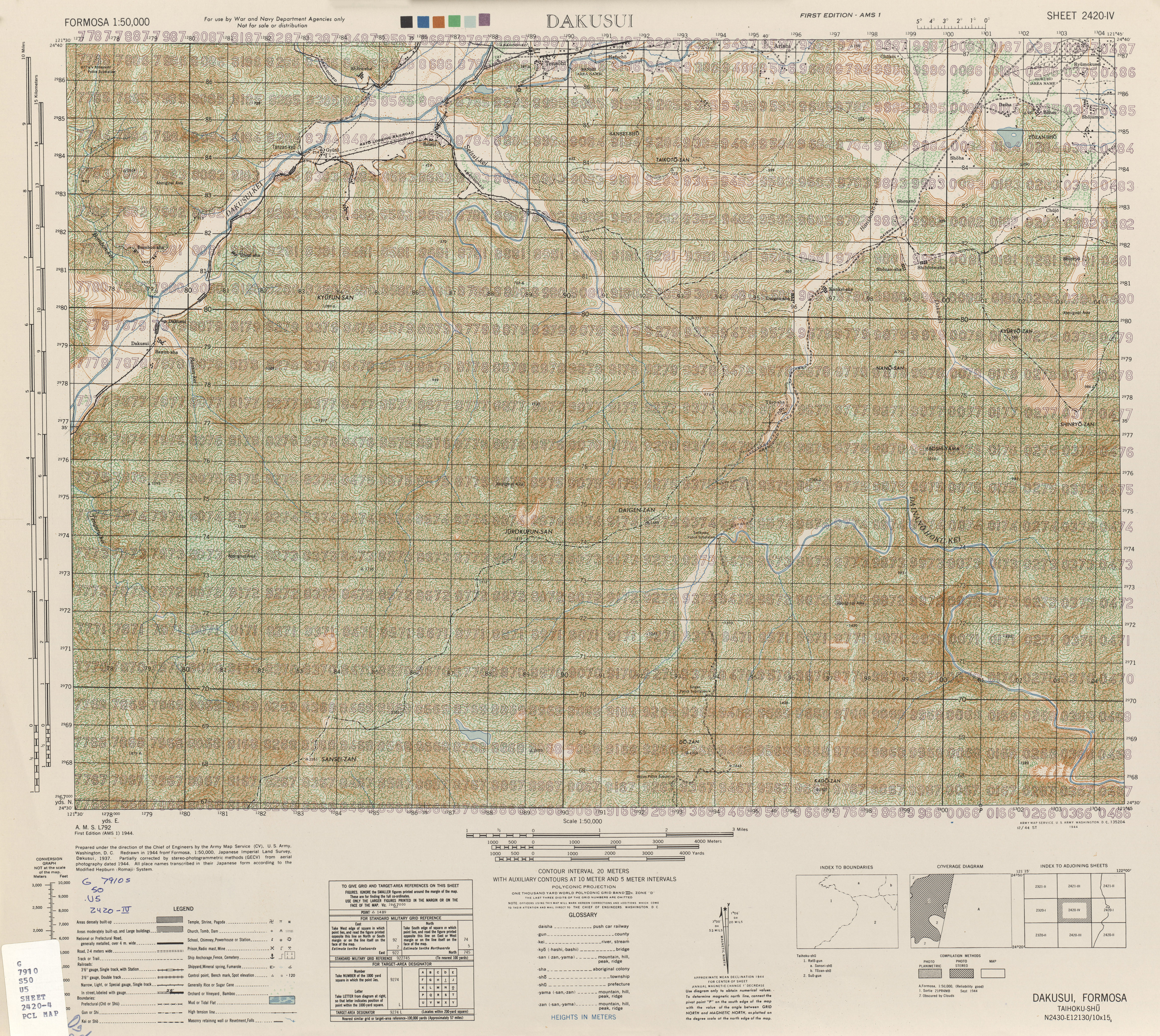 Map from Formosa (Taiwan) 1:50,000 AMS Series L792